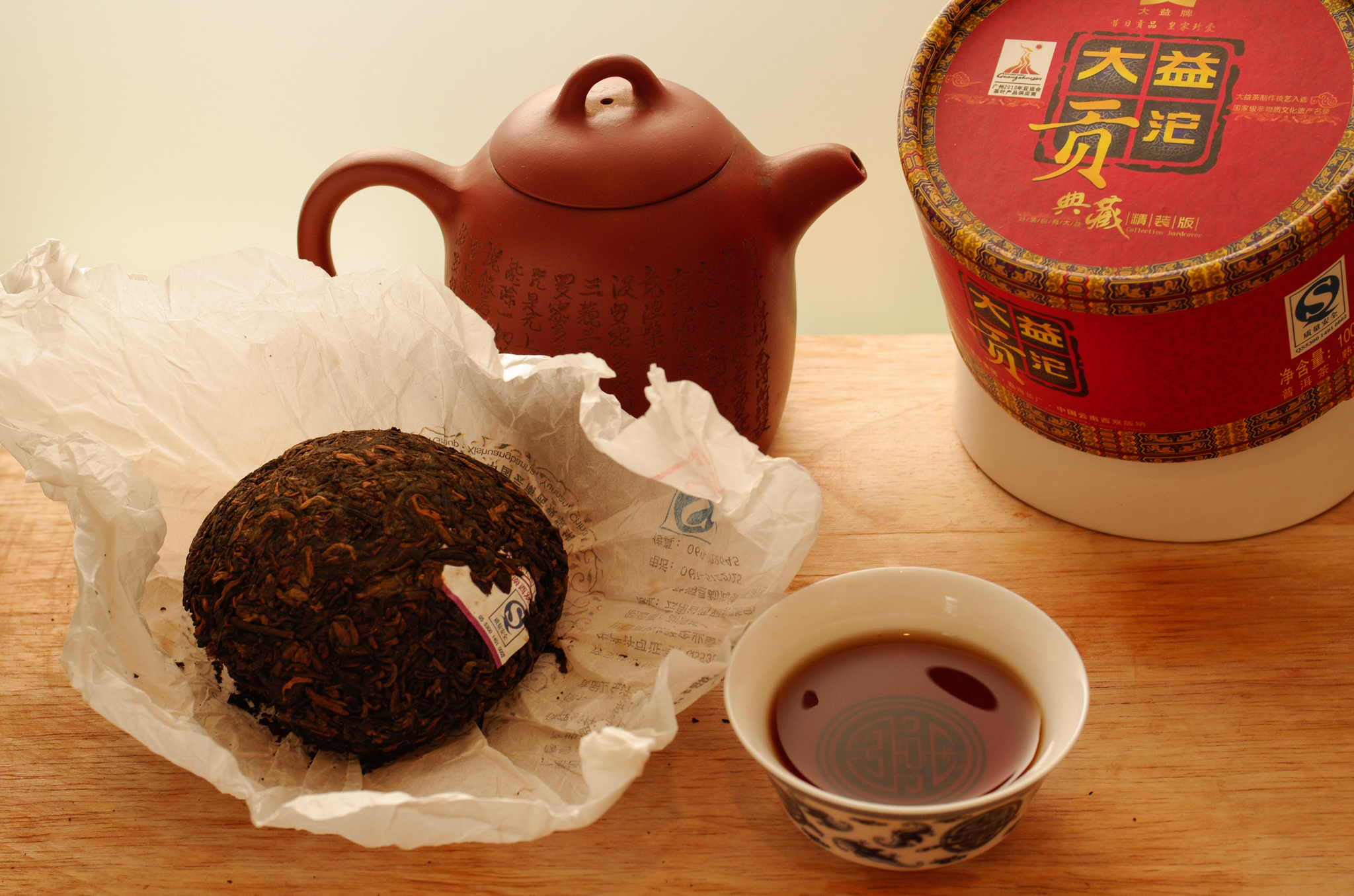 Sample of Menghai Tea Factory production,"Da Yi Gong Tuo (大益贡沱)" Pu-erh shou cha, 2010.